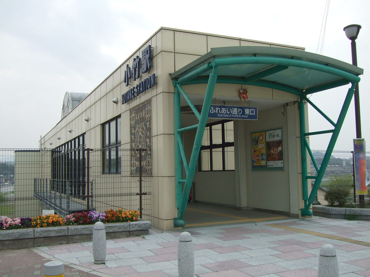 Kotake Station, Chikuho Main Line, Kyushu Railway Company.